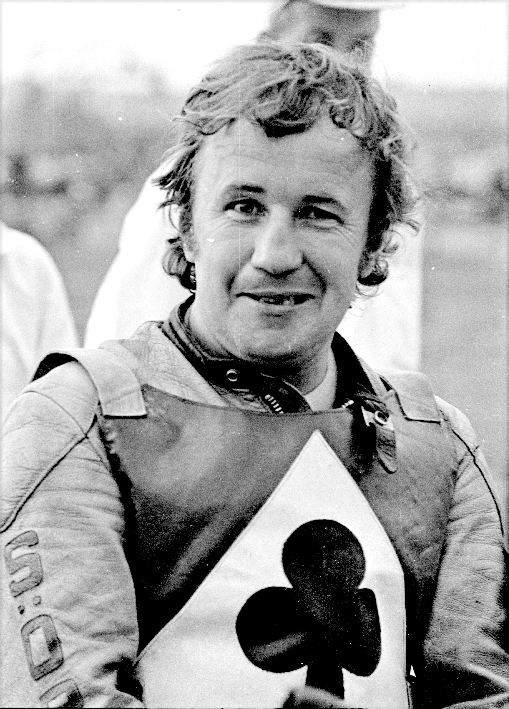 Soren Sjosten, speedway rider, Belle Vue Aces